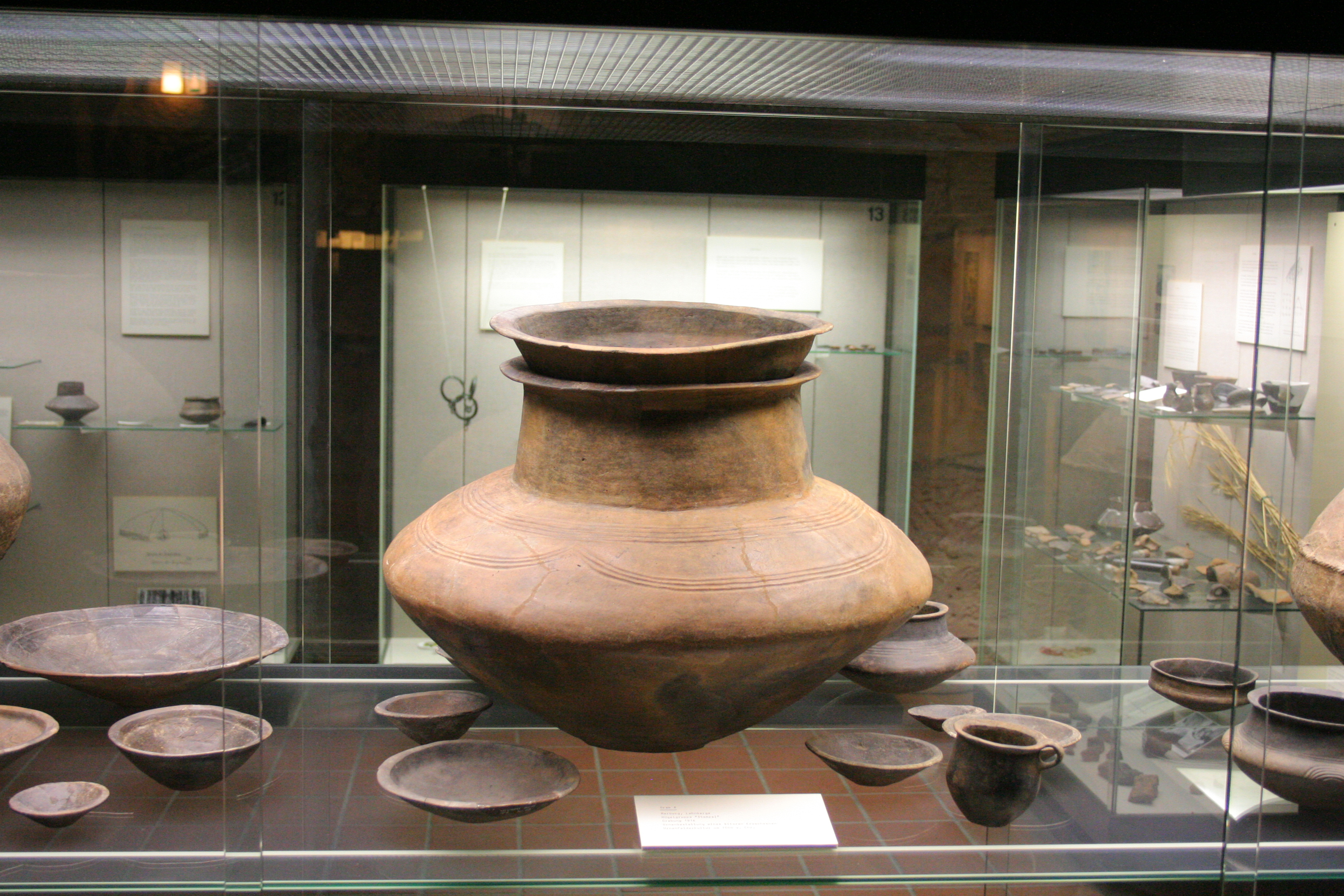 Grave urns of the Urnfield culture, place of discovery: Lahn Hills, Marburg, Hesse, Germany, exhibited in the Universitätsmuseum für Kulturgschichte, Marburg.